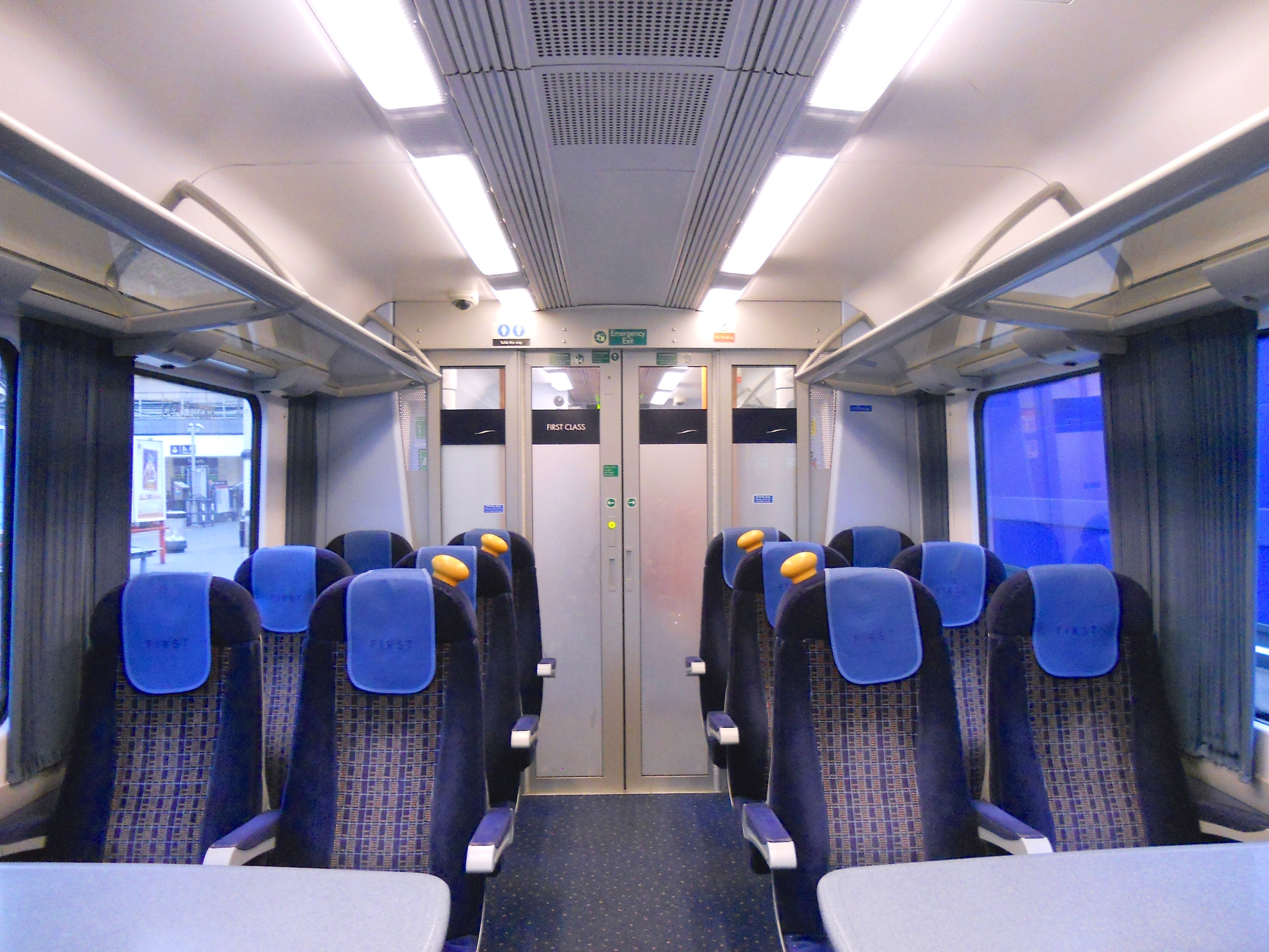 The interior of the First Class cabin aboard a Class 450